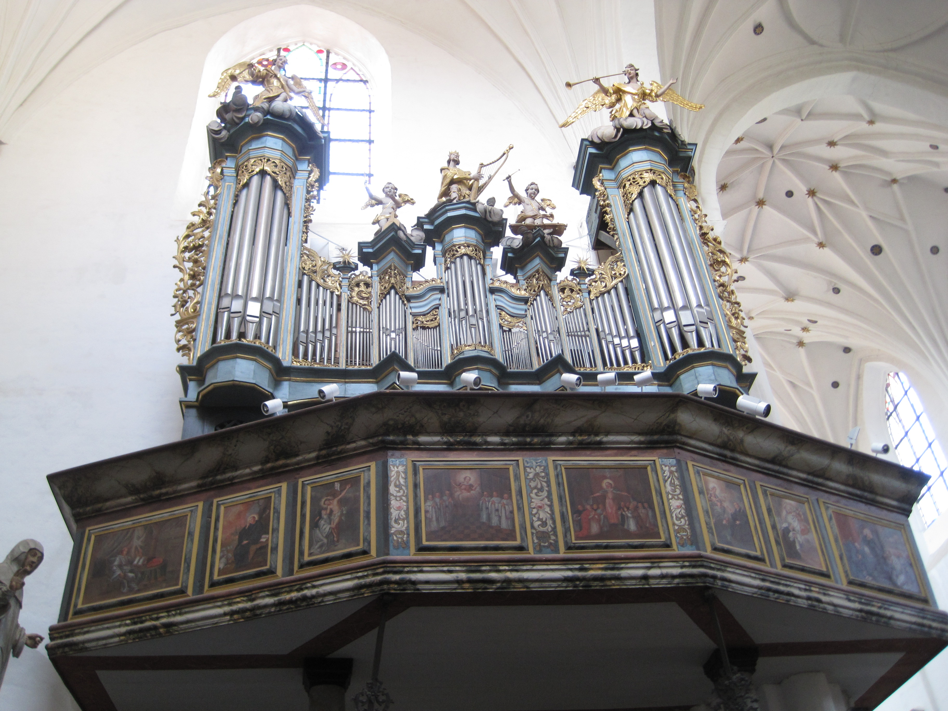 Oliwa Cathedral in Gdańsk, pipe organ